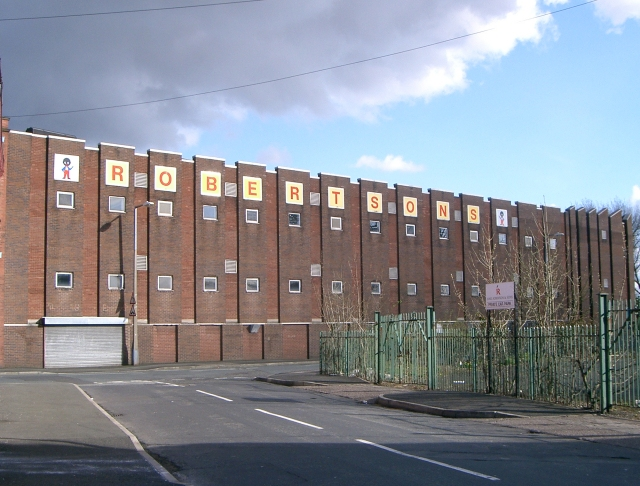 Robertsons Jam Factory - Ashton Hill The home of Robertsons Jam in Droylsden